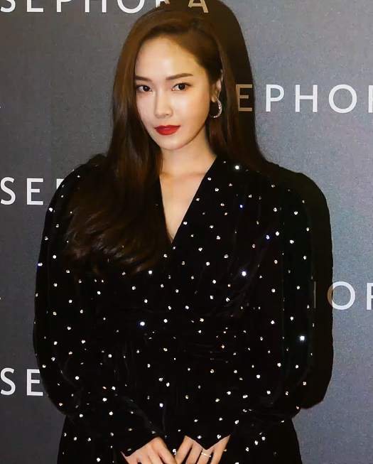 Jessica at the Sephora Store Opening Event in October 2019